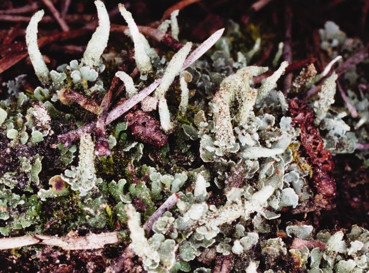 Cladonia coniocraea (Flörke) Spreng., 1827 Photographed in the field. Cladonia coniocraea was growing on rocks near a rusty tub along the Serpentine Trail (White Trail) (southern section) at the Soldiers Delight Natural Environment Area, Baltimore County, Maryland, USA (Lat. N 39o24.483', Long. W 76o51.031').